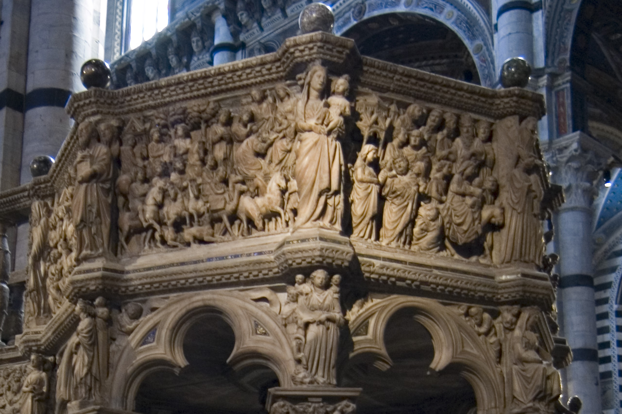 see above